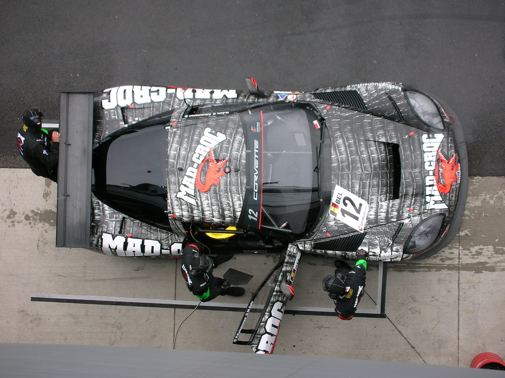 The #12 Corvette C6.R of Mad-Croc Racing during GT1 qualifications @ Brno 2010.